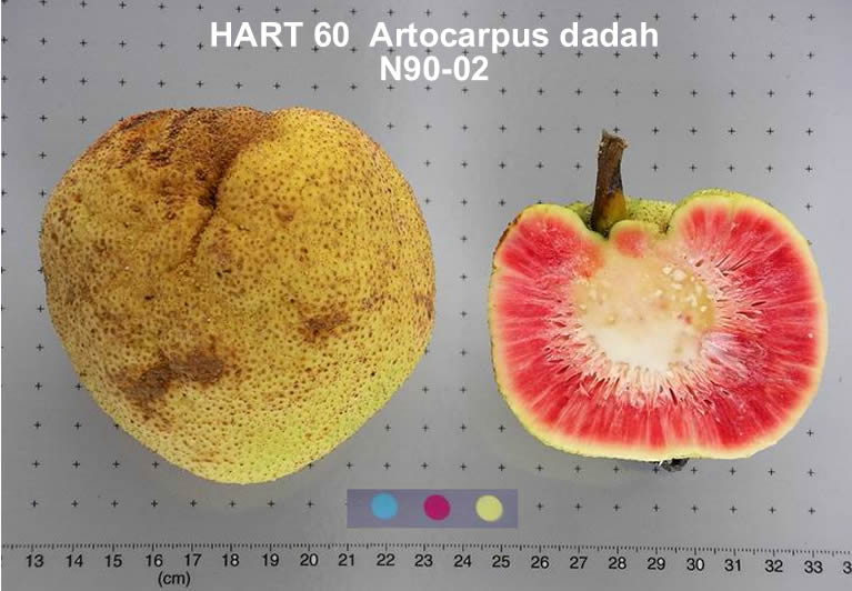 Artocarpus dadah fruit